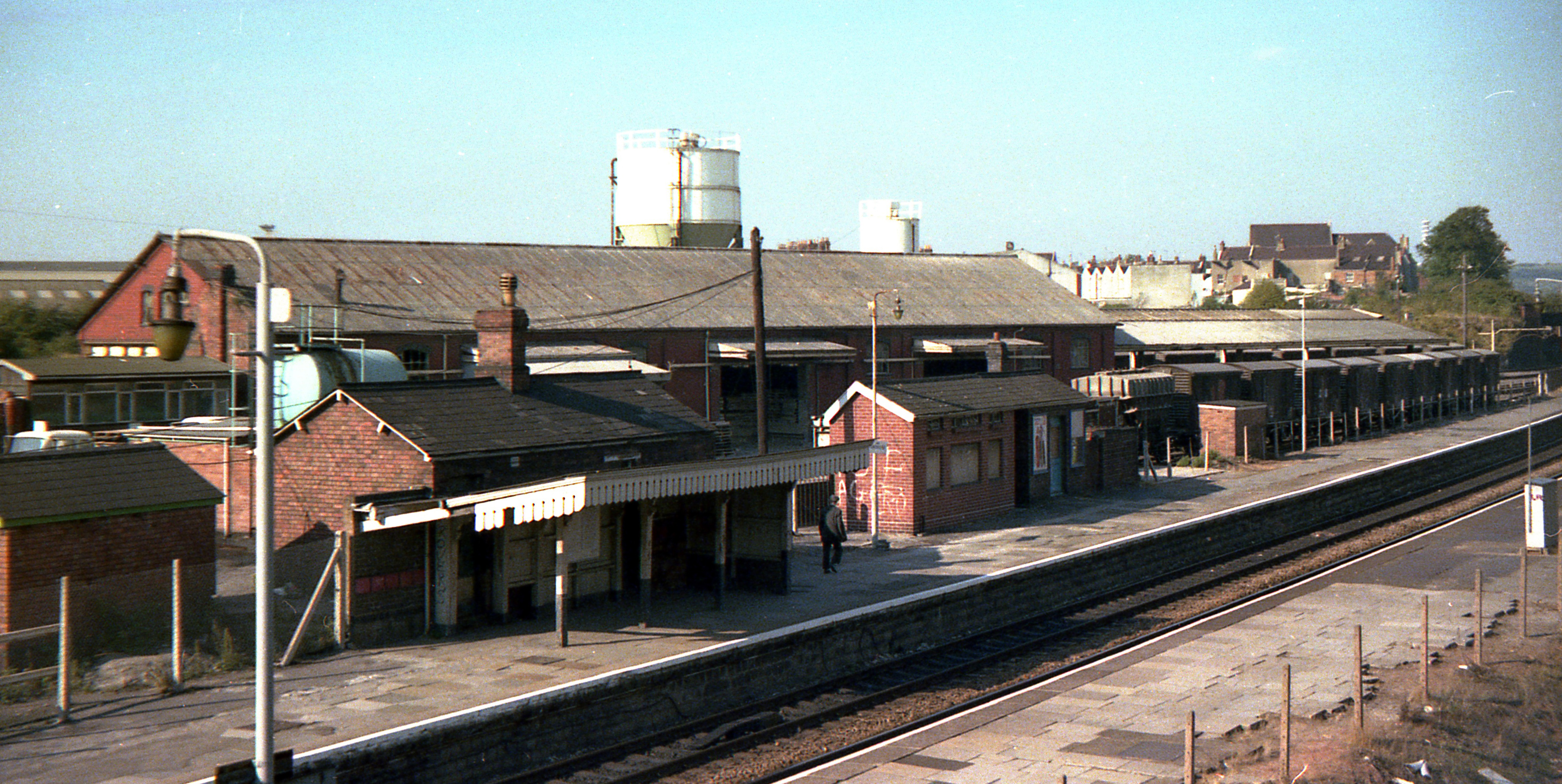 Lawrence Hill Station, Bristol, on Saturday 29th September 1979. This was when there was still a working goods shed there.